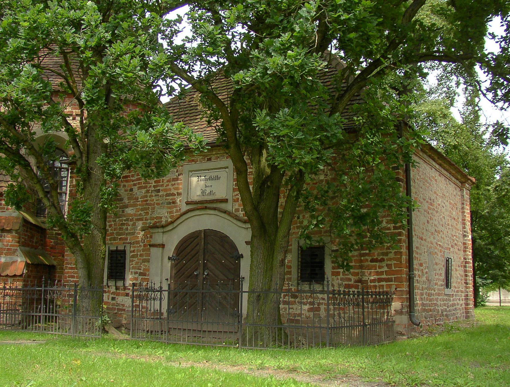 Tomb of the family von Katte in Wust in Saxony-Anhalt, Germany